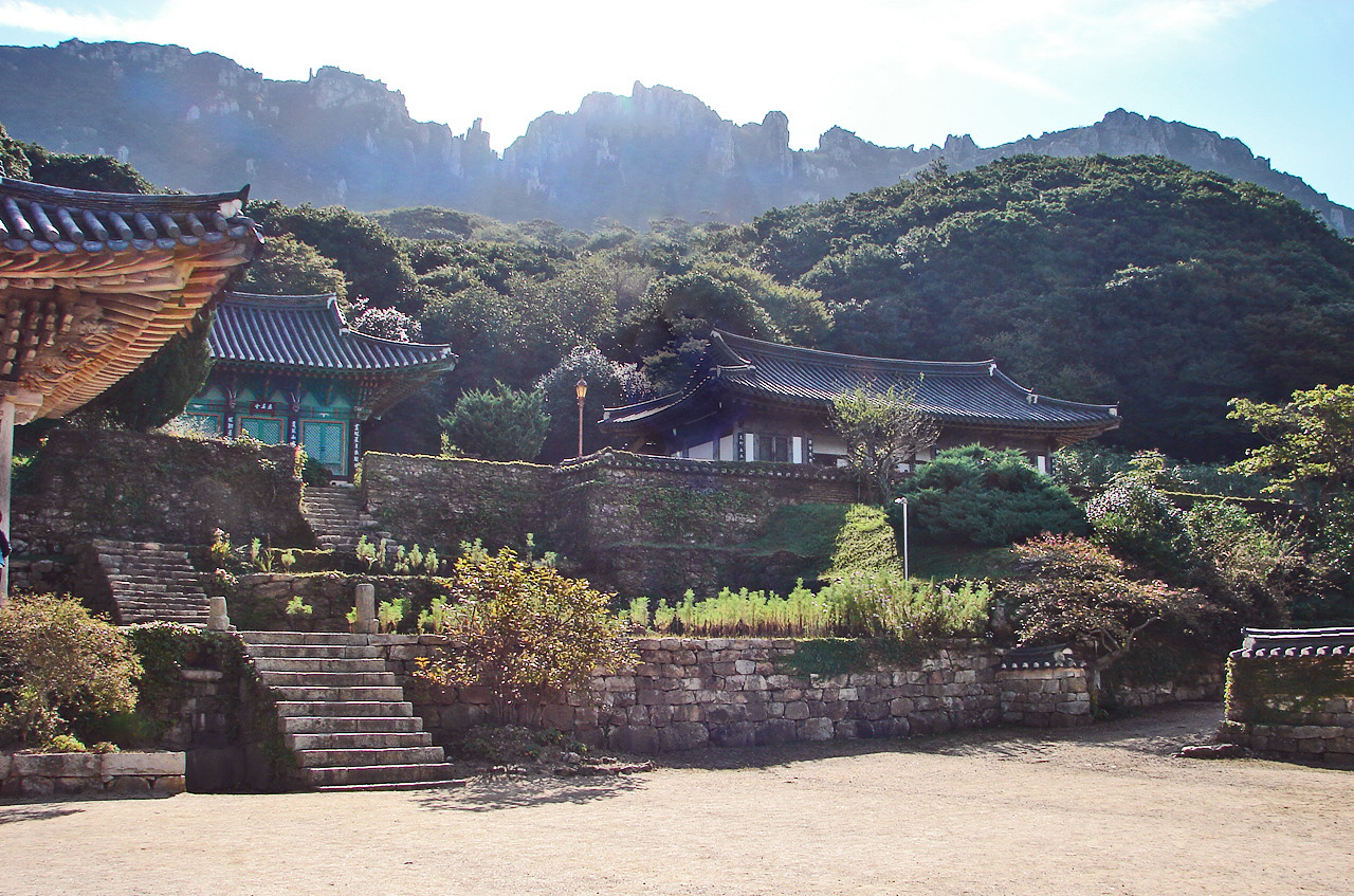 Mihwangsa is a Buddhist temple, established in 749 AD during the Silla Dynasty, located at the southern-most part of the Korean peninsula on the west side of Dalmasan (Dharma Mountain), Haenam County, South Jeolla Province, South Korea. Mihwang comes from "Mi" (beautiful), after the unusually pleasing, strangely musical bellow of a cow, and "Hwang" (yellow/gold) for golden robes of the mythical founder.